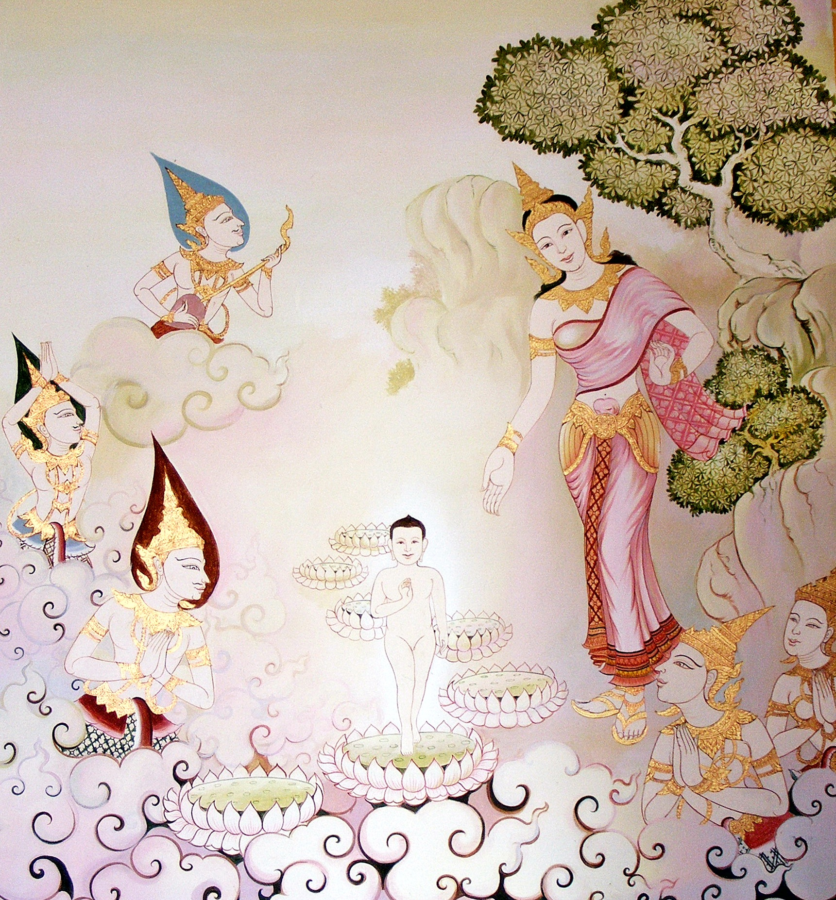 Wat Tha ThanonLocation: Wat Tha Thanon Mueang Uttaradit, Uttaradit Province, Thailand.